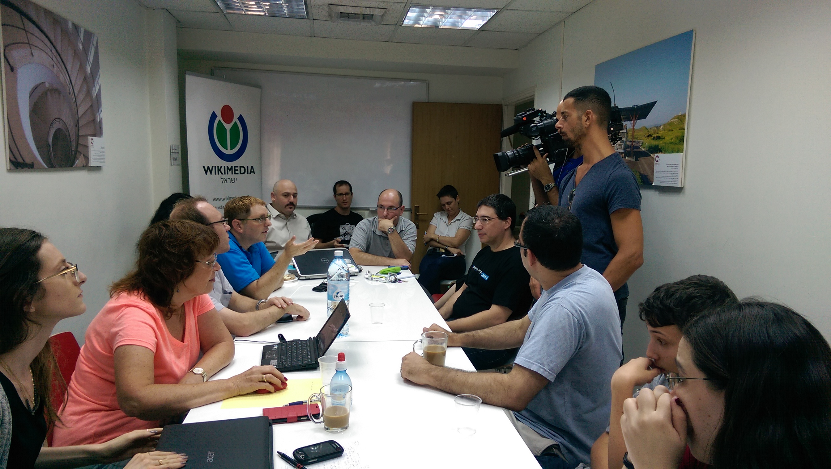 Channel 10 reporting about Wikimedia Israel Strategic process 2014